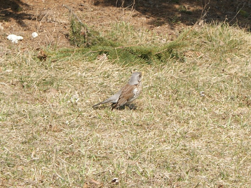 Turdus pilaris in Minsk, Belarus